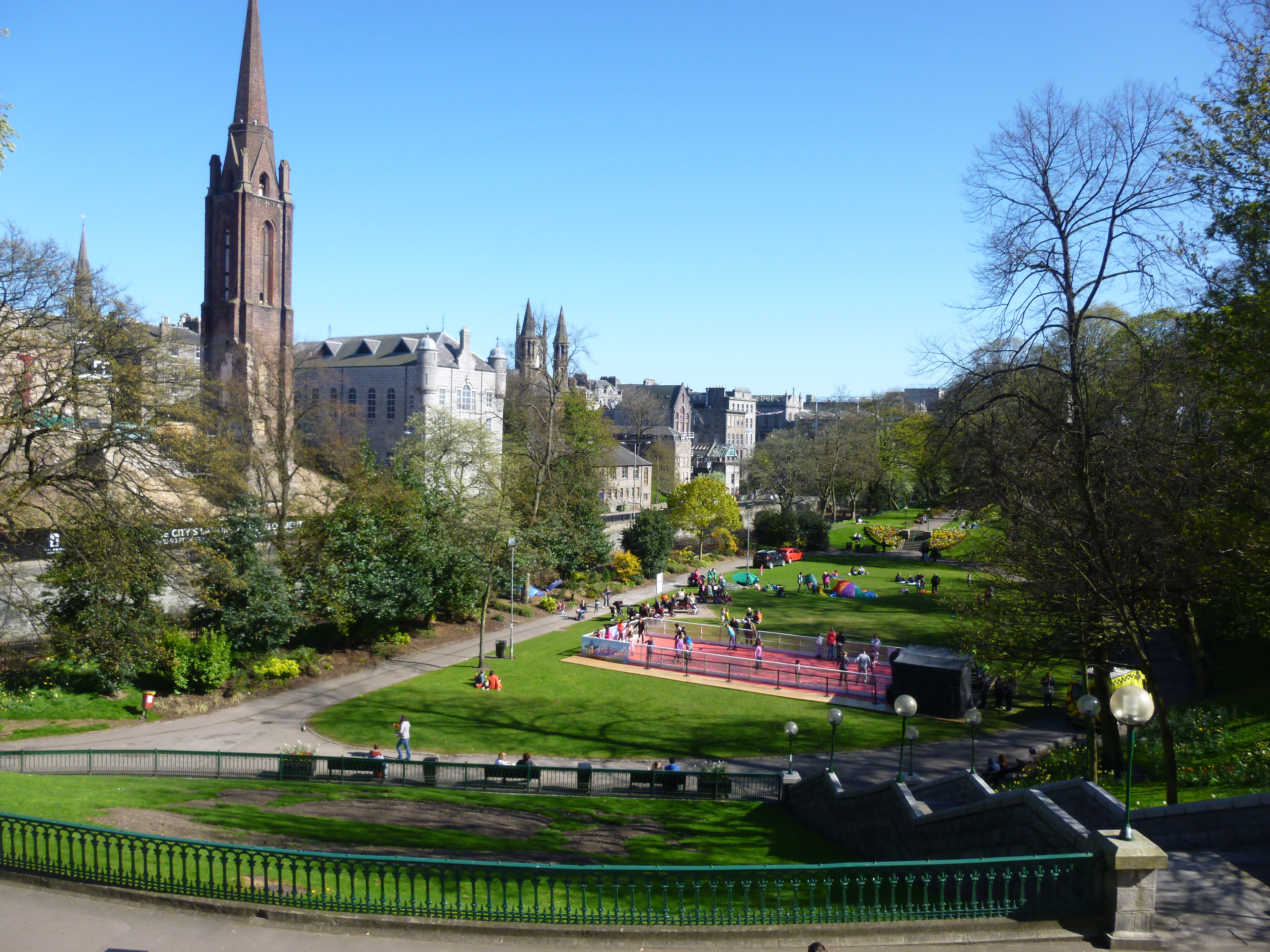 Union Terrace Gardens, Aberdeen